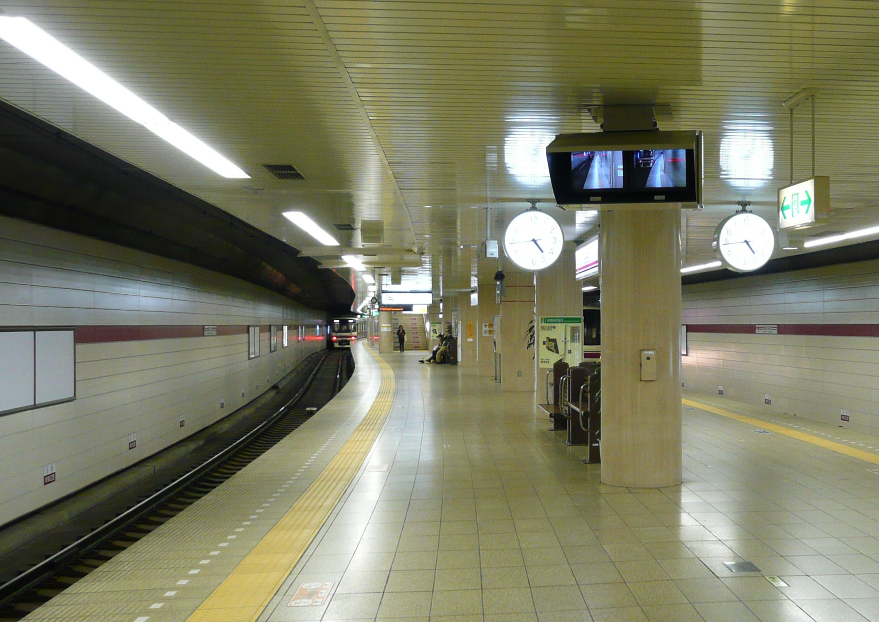 Platforms of Keiō Hachiōji Station